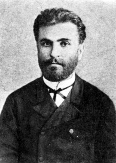 Ivane Machabeli, Georgian writer